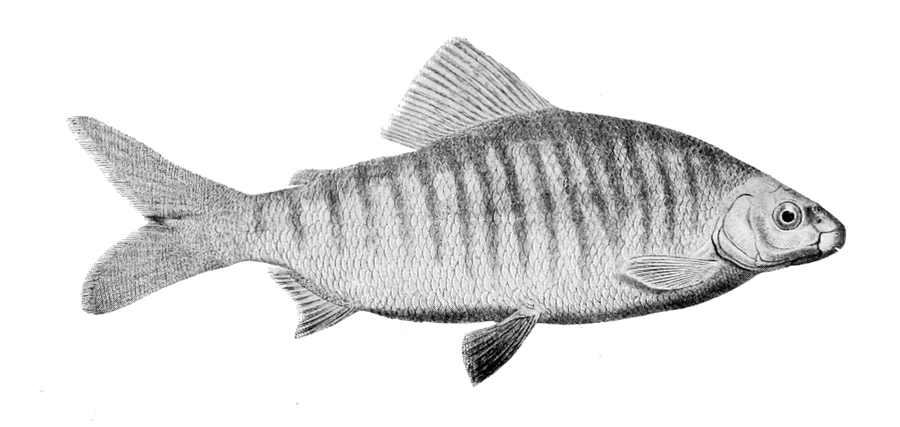 Distichodus fasciolatus